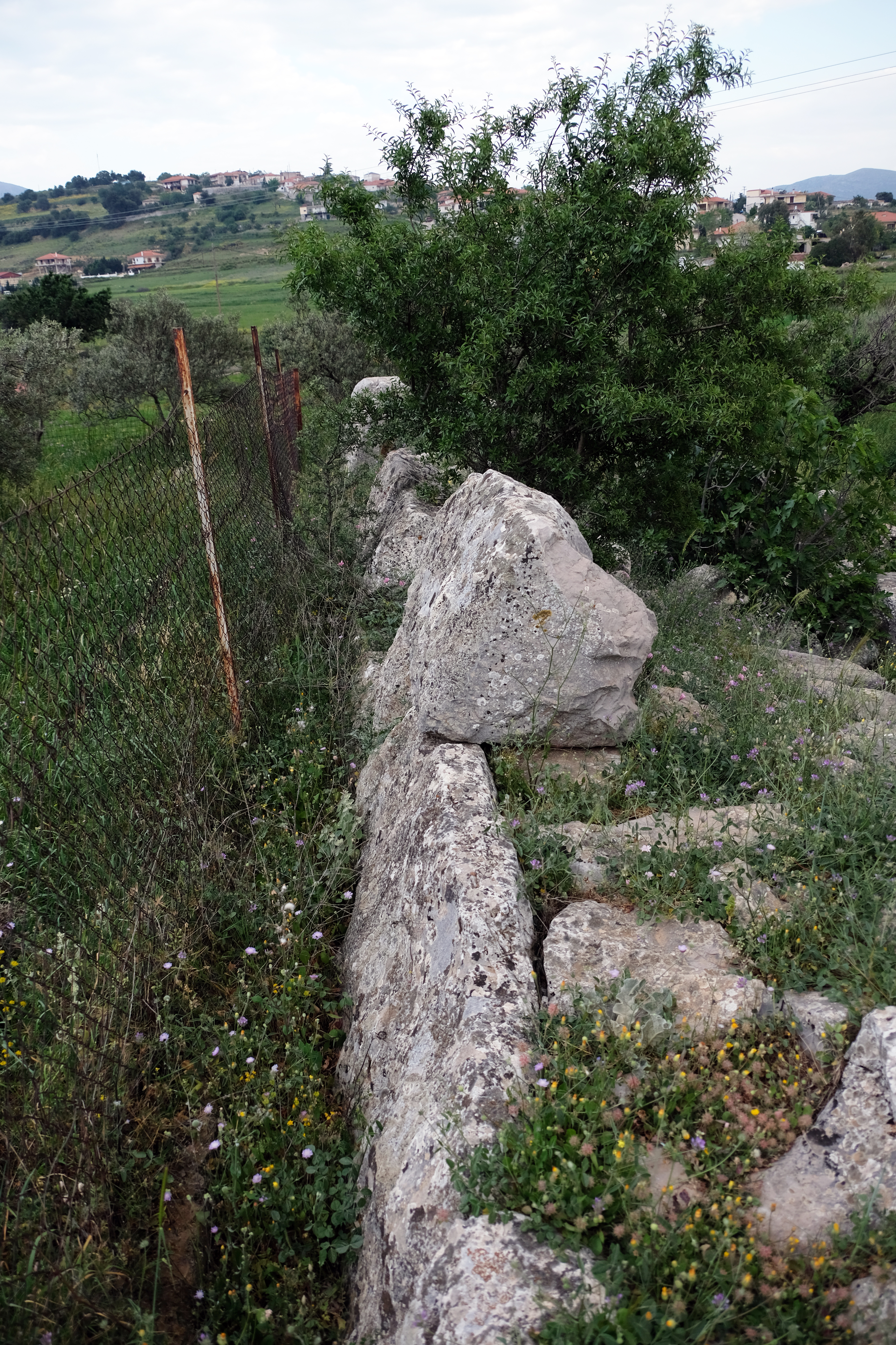 Piramid of Lygourio